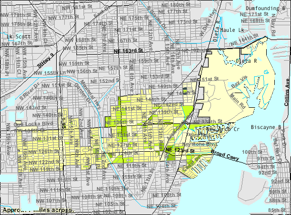 map of North Miami, Florida showing city limits